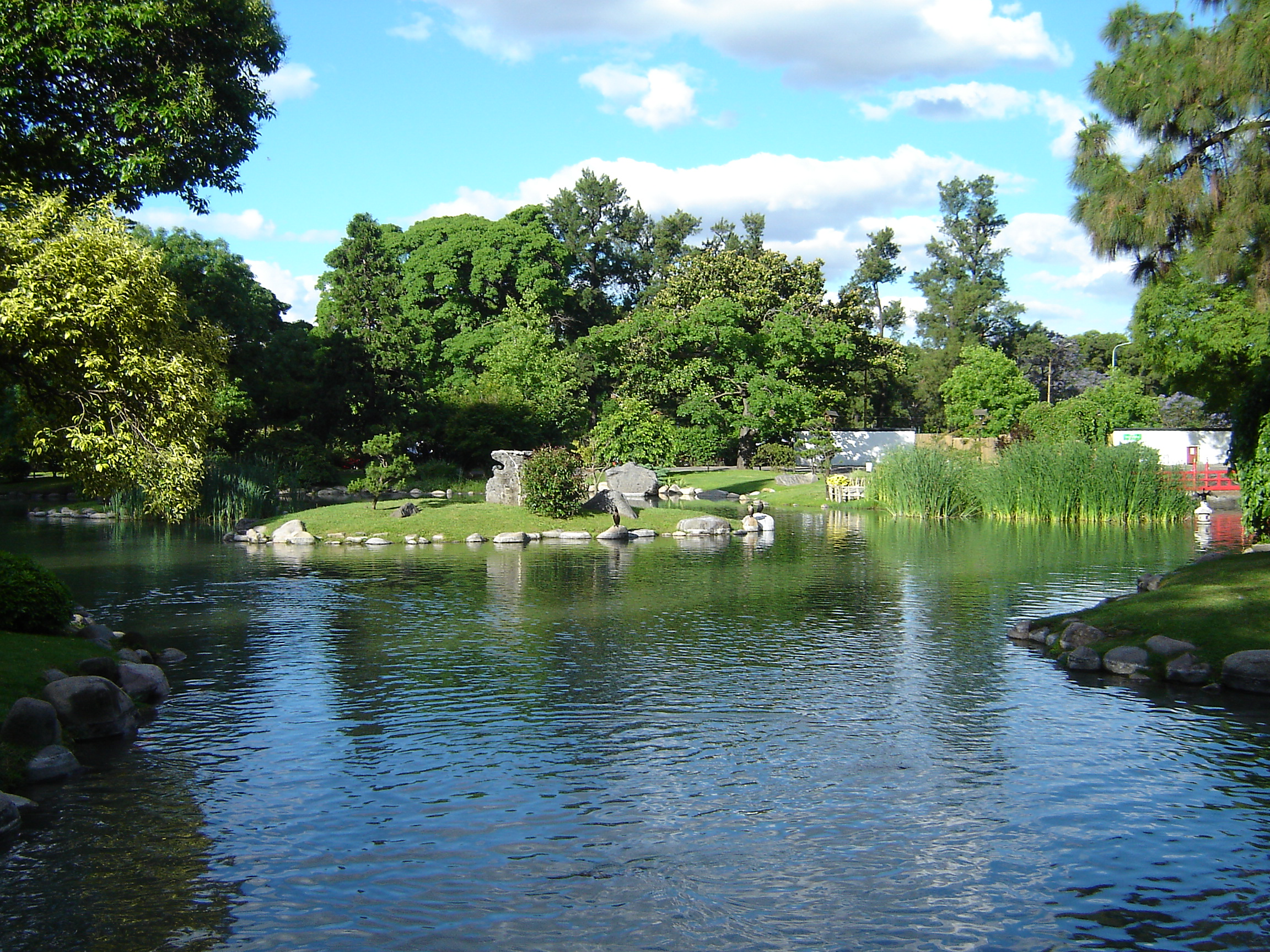 Buenos Aires Japanese Garden